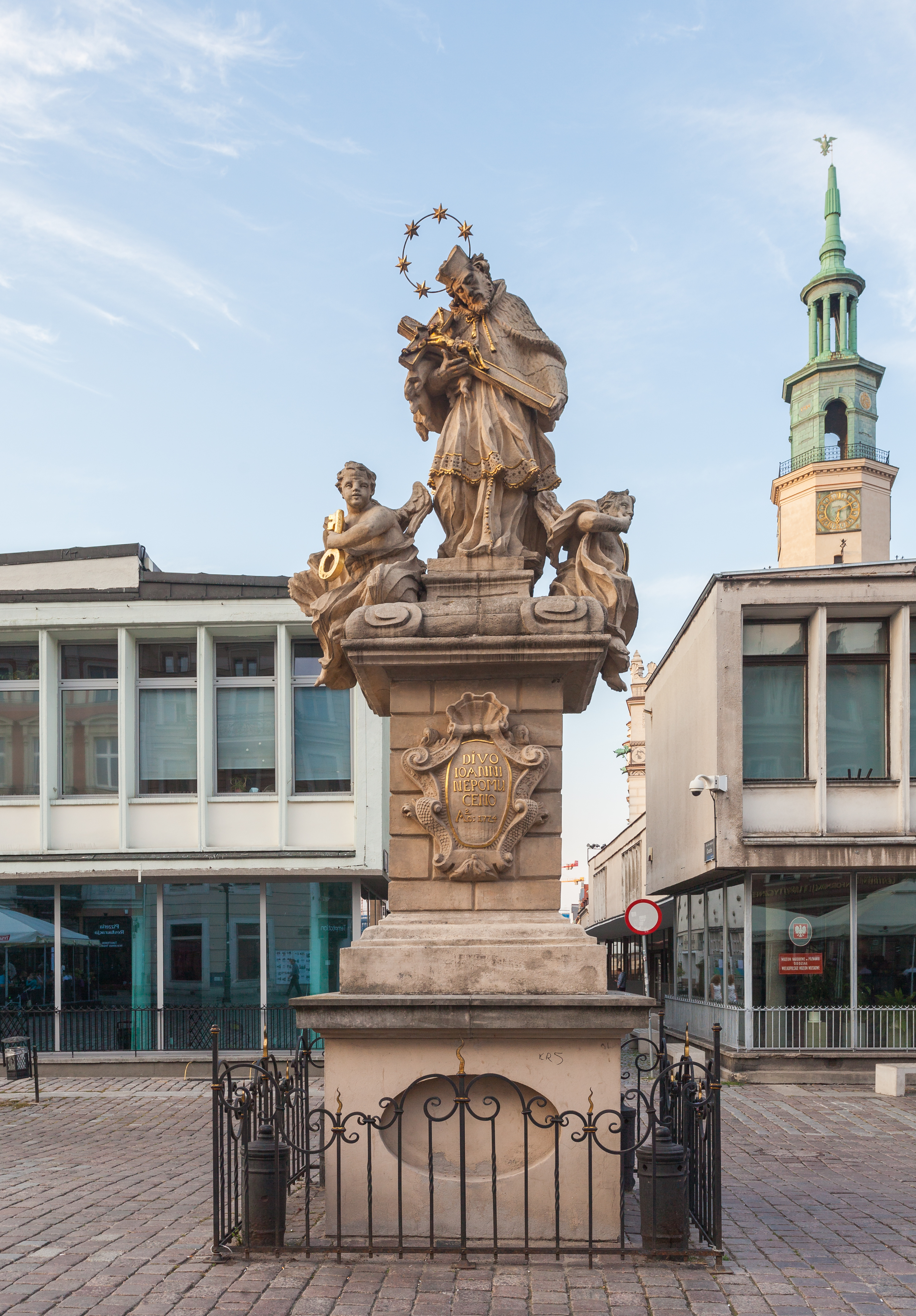 Statue of John of Nepomuk, Poznan, Poland